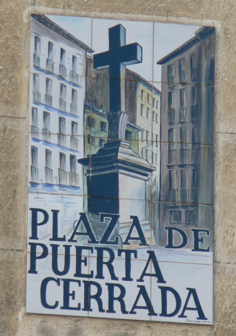 Sign of Plaza de Puerta Cerrada (square, Centro district) in Madrid (Spain).